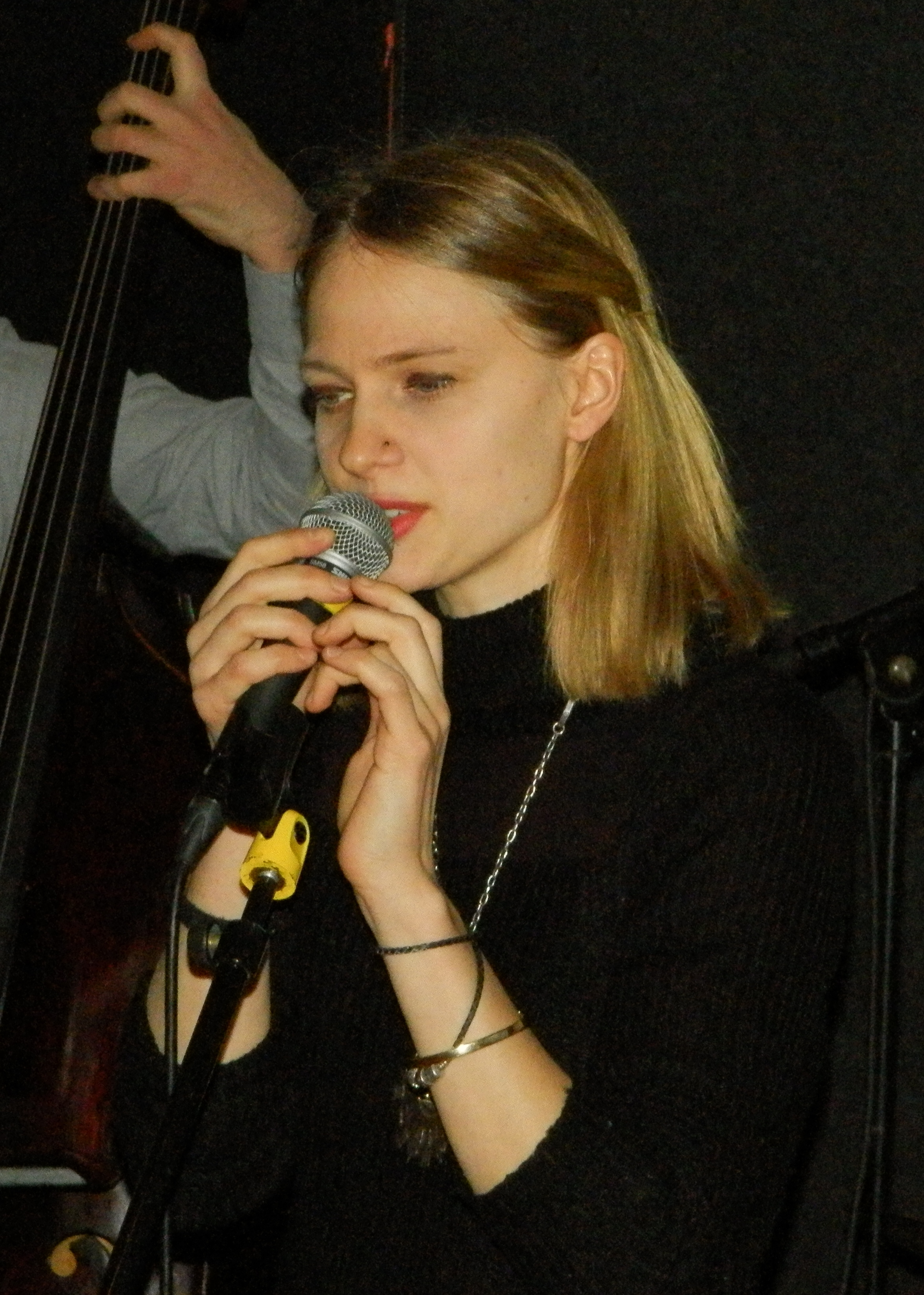 Greta Svabo Bech is a Faroese singer, songwriter and songwriter.